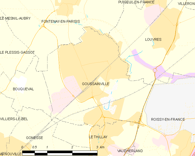 Map of French municipality Goussainville